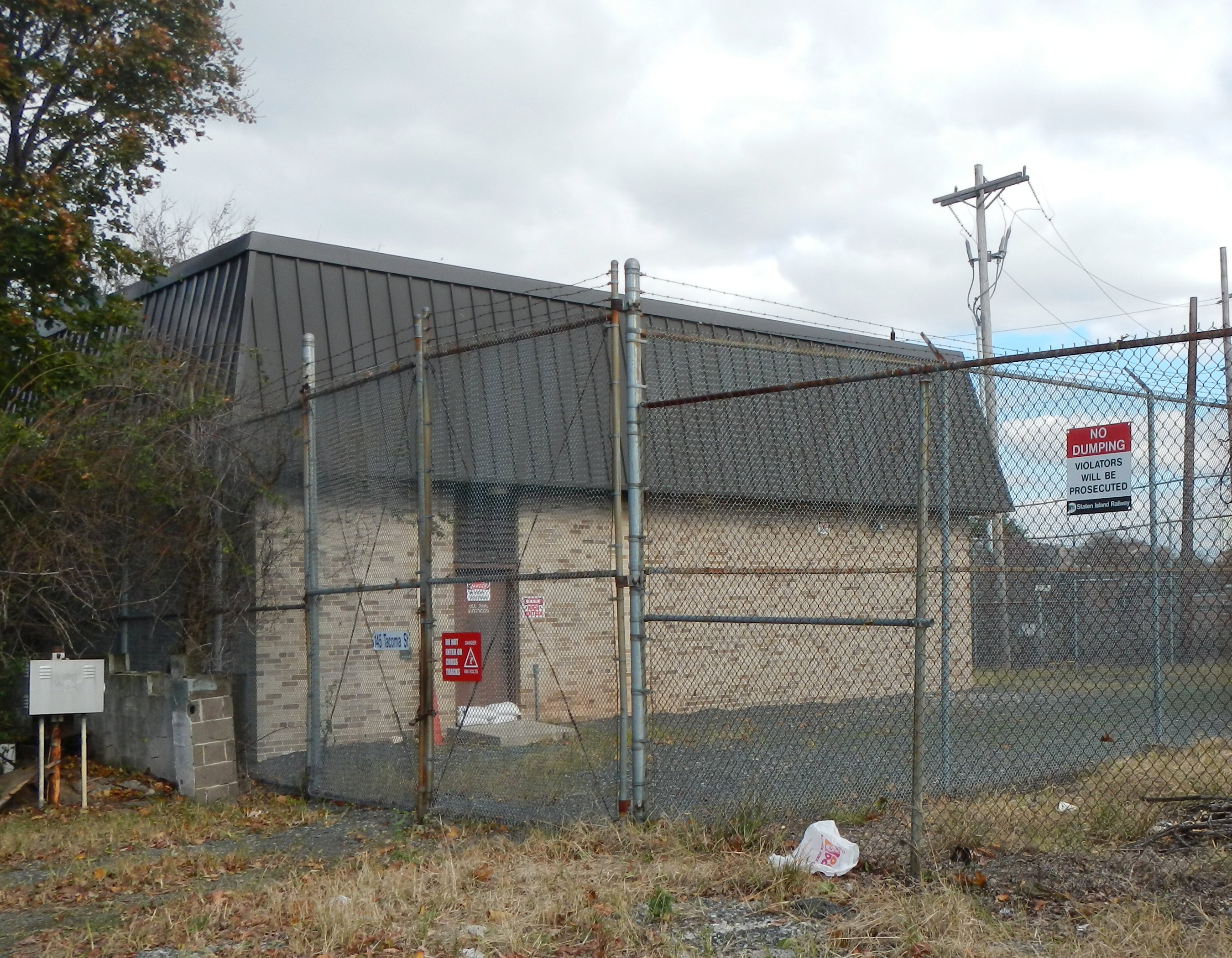 Looking northeast at Old Town powerhouse on a partly sunny midday.